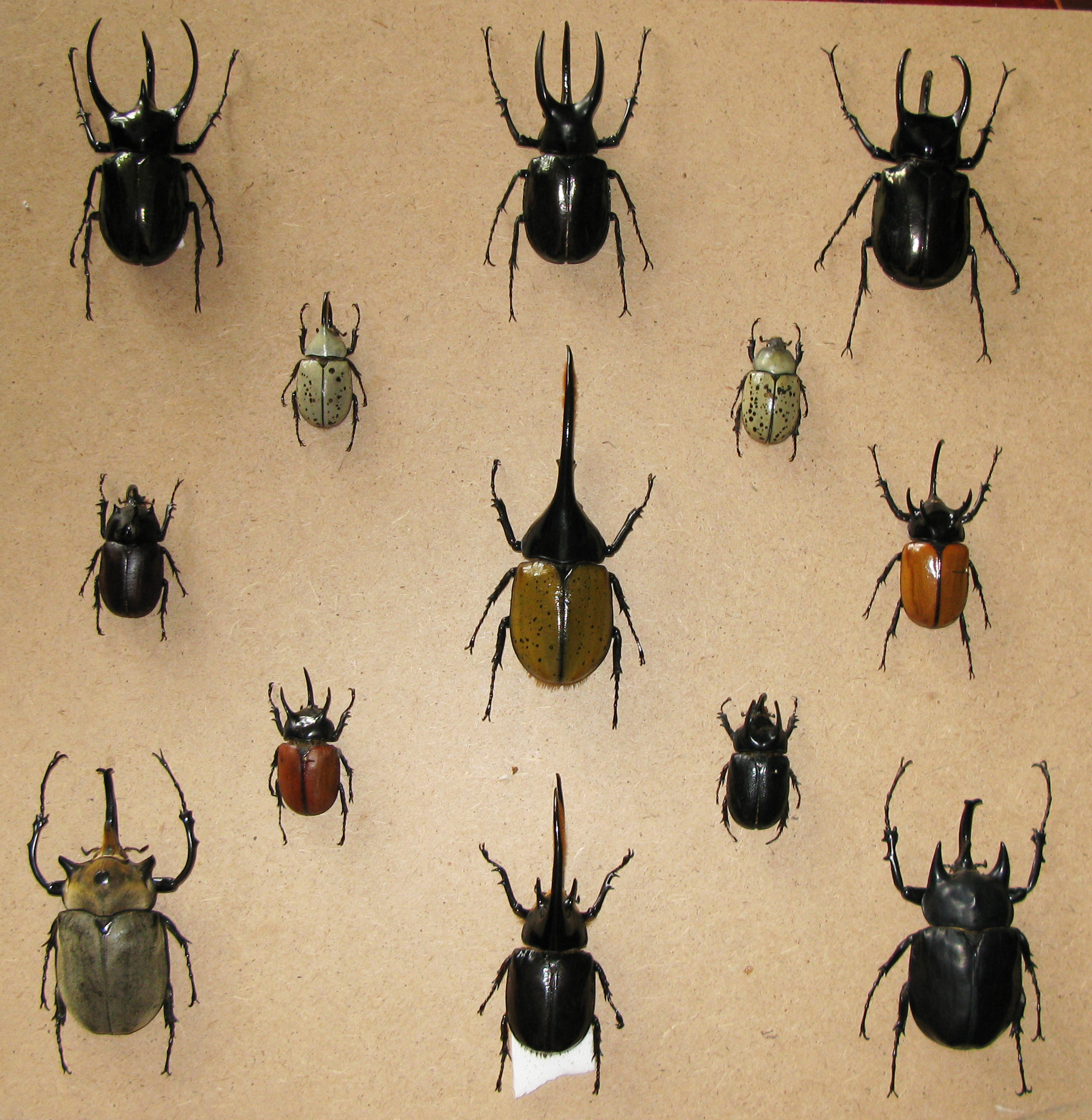 Dynastinae